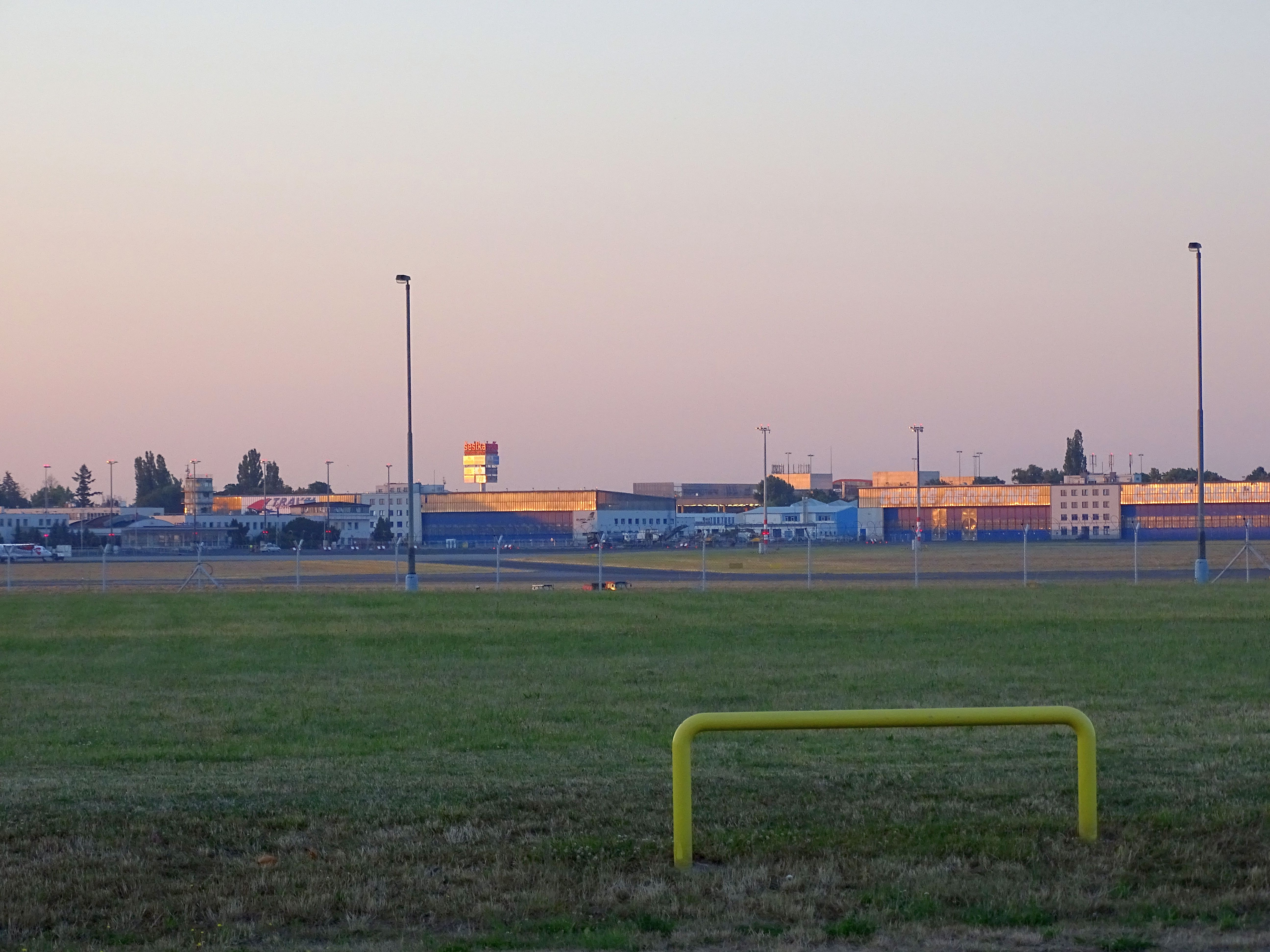 Prague-Ruzyně, Czech Republic. Václav Havel Airport Prague, Schengenská street, hangars.